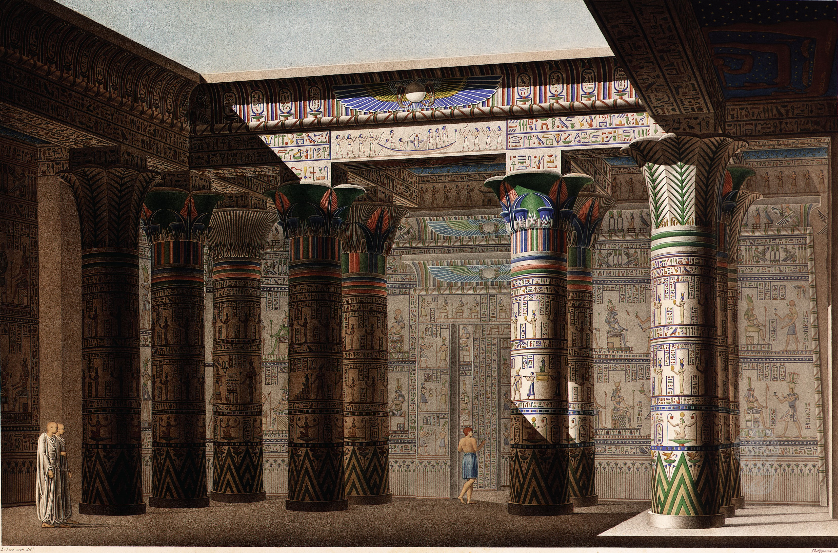 Inside the Temple of Philae/Egypt, picture from the Description De L'Egypte